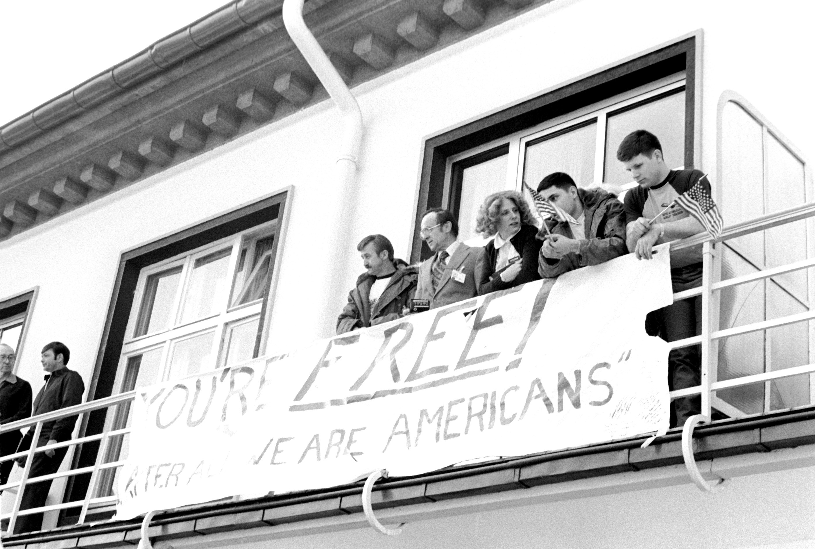 Former hostages Army MSGT Regis Ragan, Richard Morefield, Marine SGT William Gallegos and Marine SGT Paul Lewis, left to right, watch the German Children's Chorus street concert honoring the hostages from a balcony of the Wiesbaden Air Base Hospital in West Germany, January 1981. The 52 hostages are spending a few days in the hospital after their release from Iran prior to their departure for the United States.